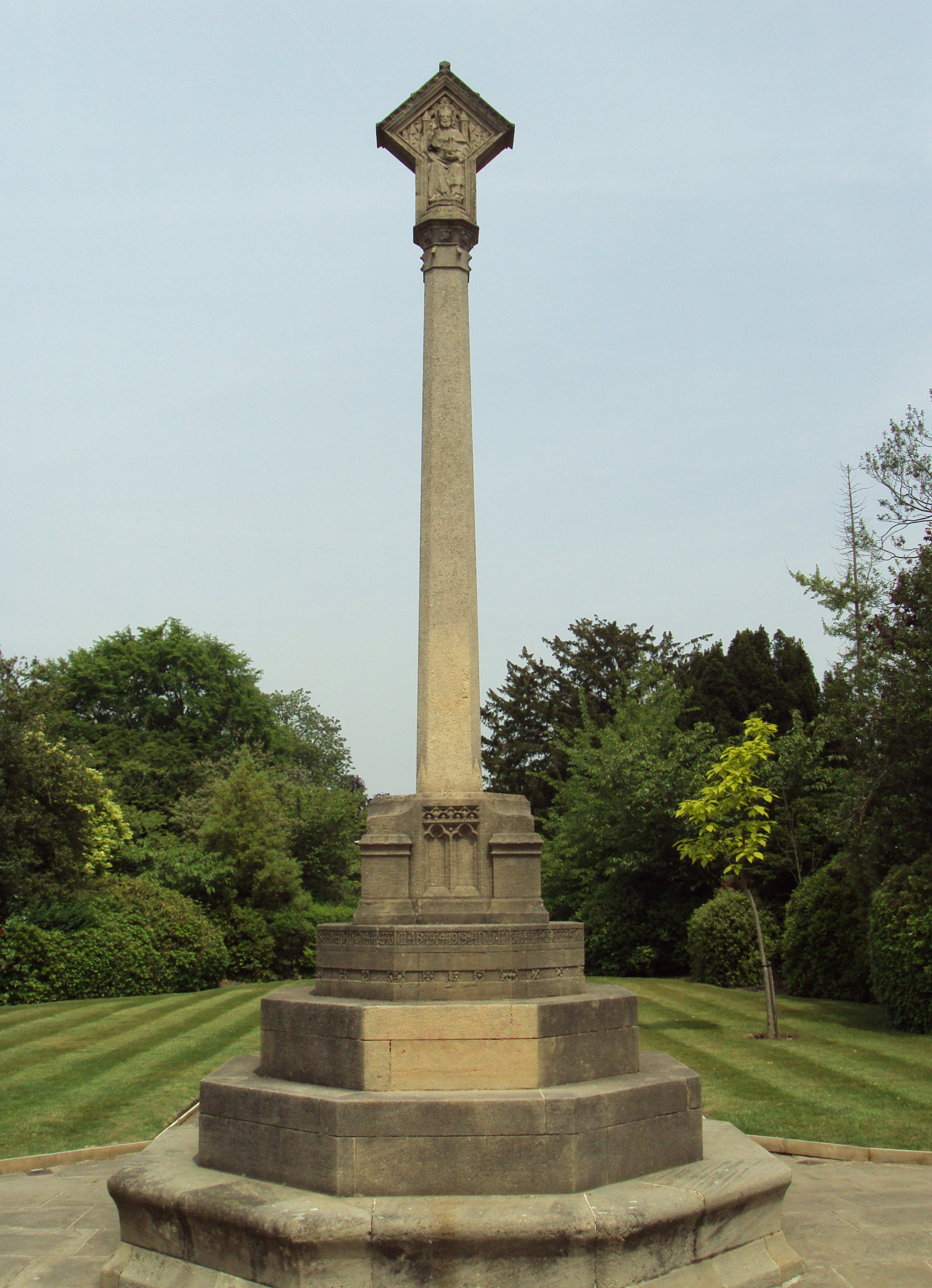 Monument at the Dulwich Estate, London.